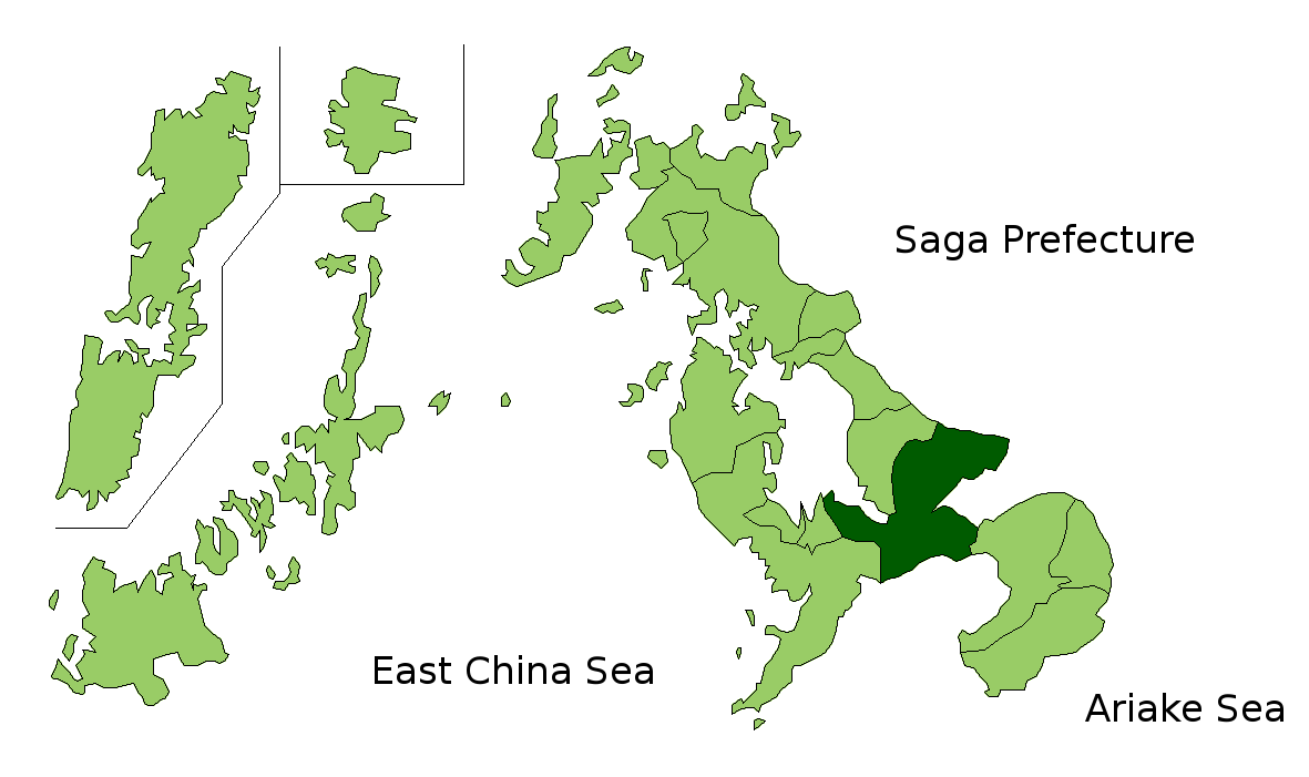 The location of Isahaya in Nagasaki Prefectuur, Japan